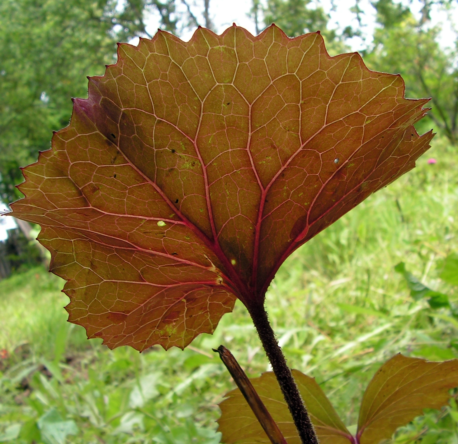 Ligularia dentata ‘Desdemona’. The under side of the leaf. Moscow region, Russia